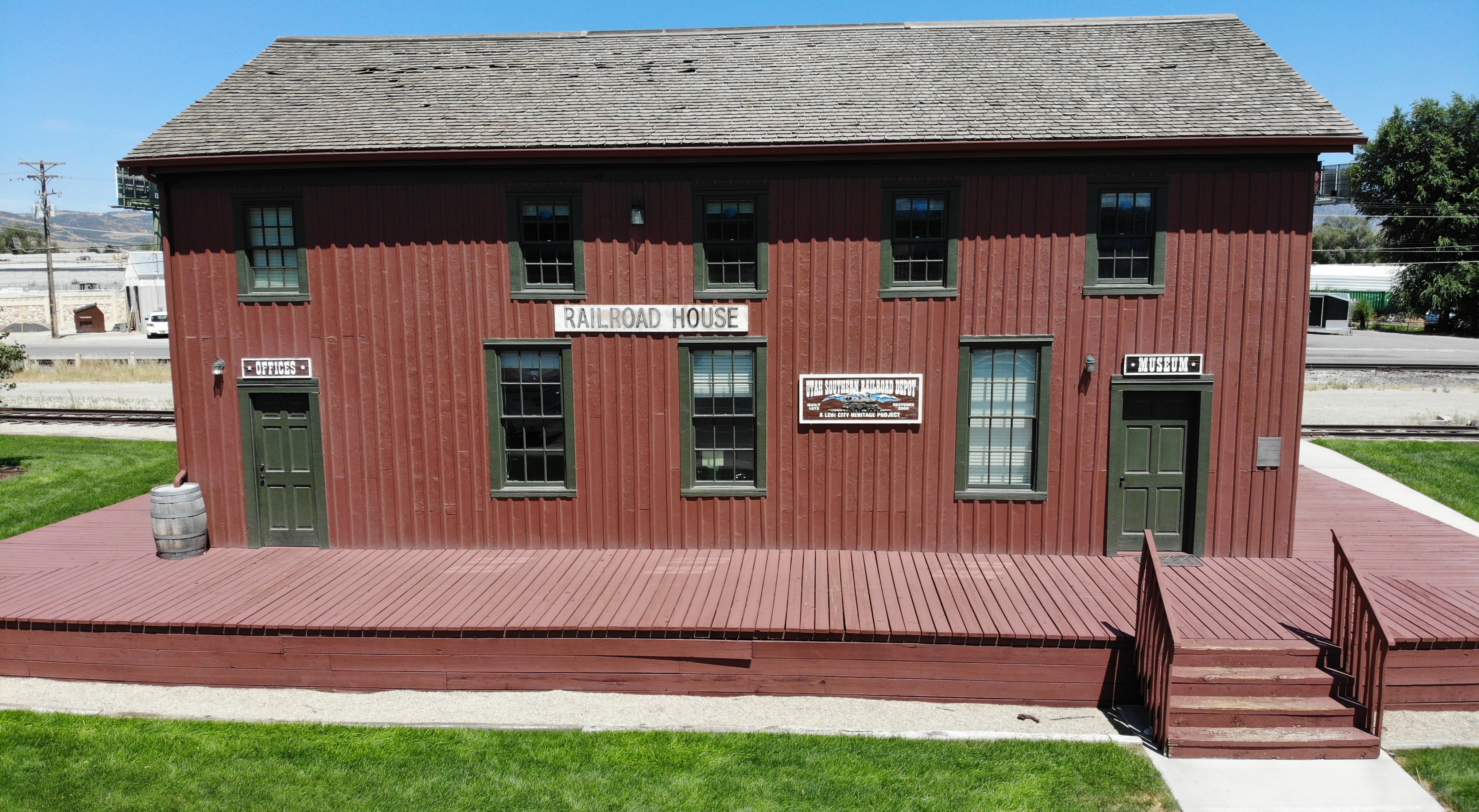 Utah Southren Rail Depot